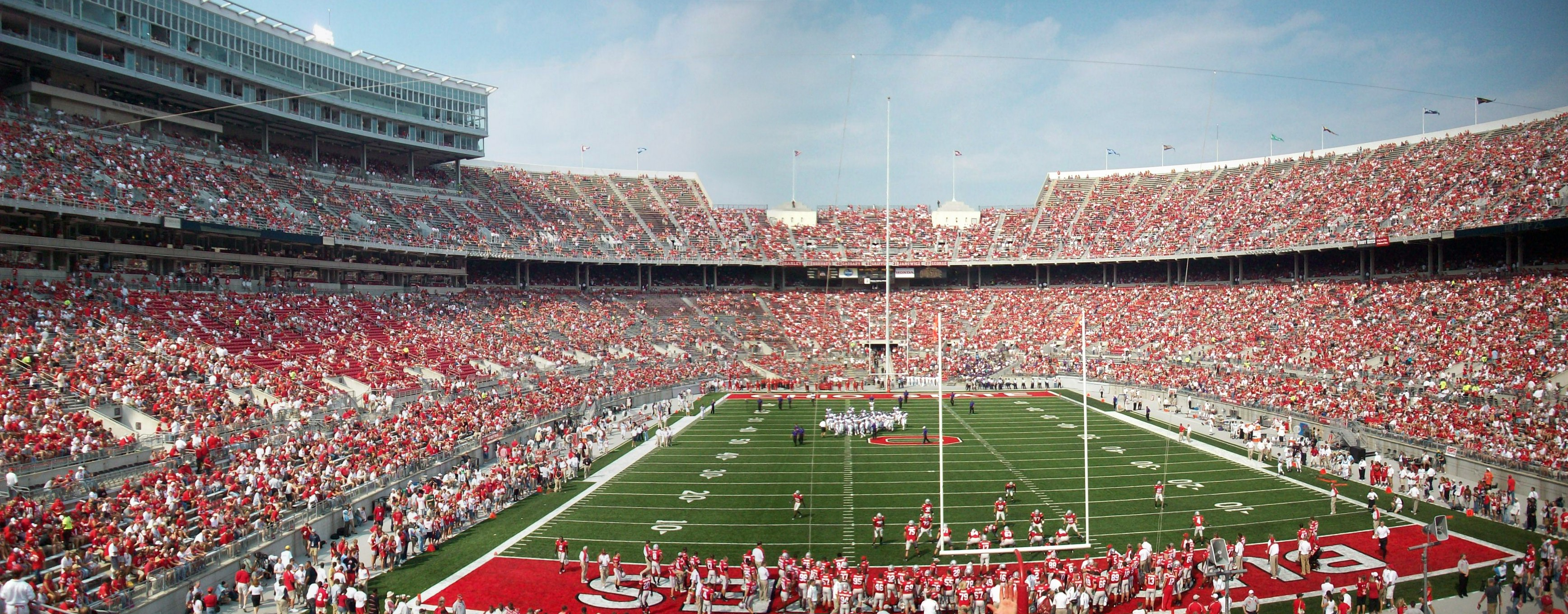 Panoramic view of Ohio Stadium during a game with Northwestern University in 2007.